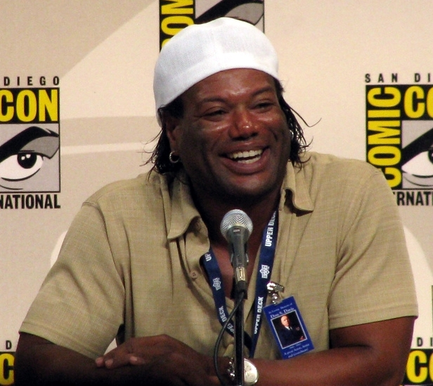 Christopher Judge at Comic Con 2008